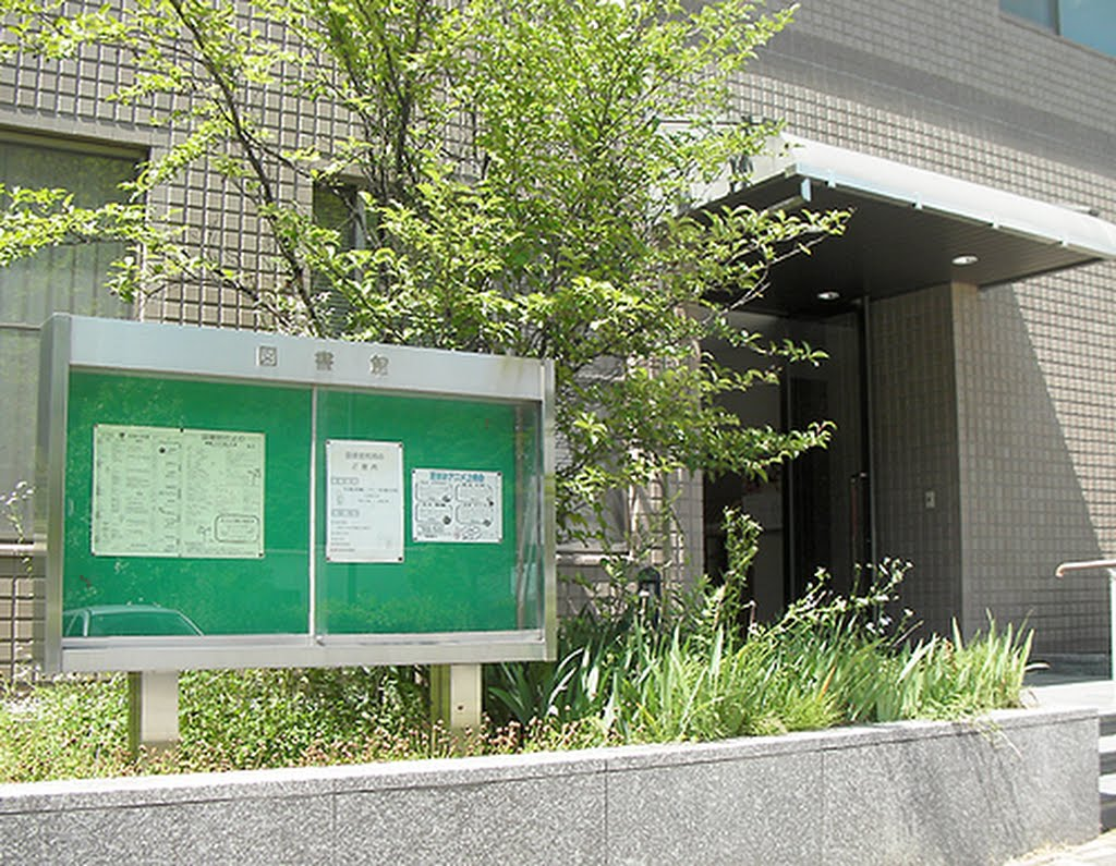 This is an entrance of Kawakami village public library in Kawakami, Nagano, Japan.